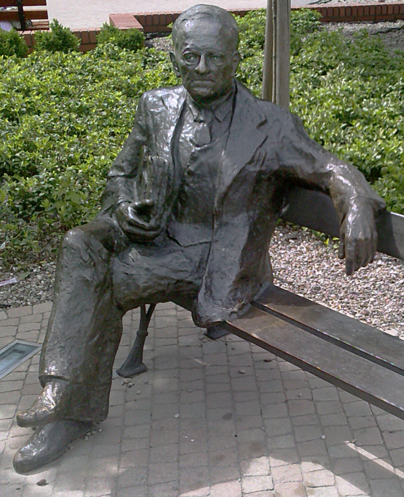 Józef Mehoffer - sculpture from Turek (Poland)